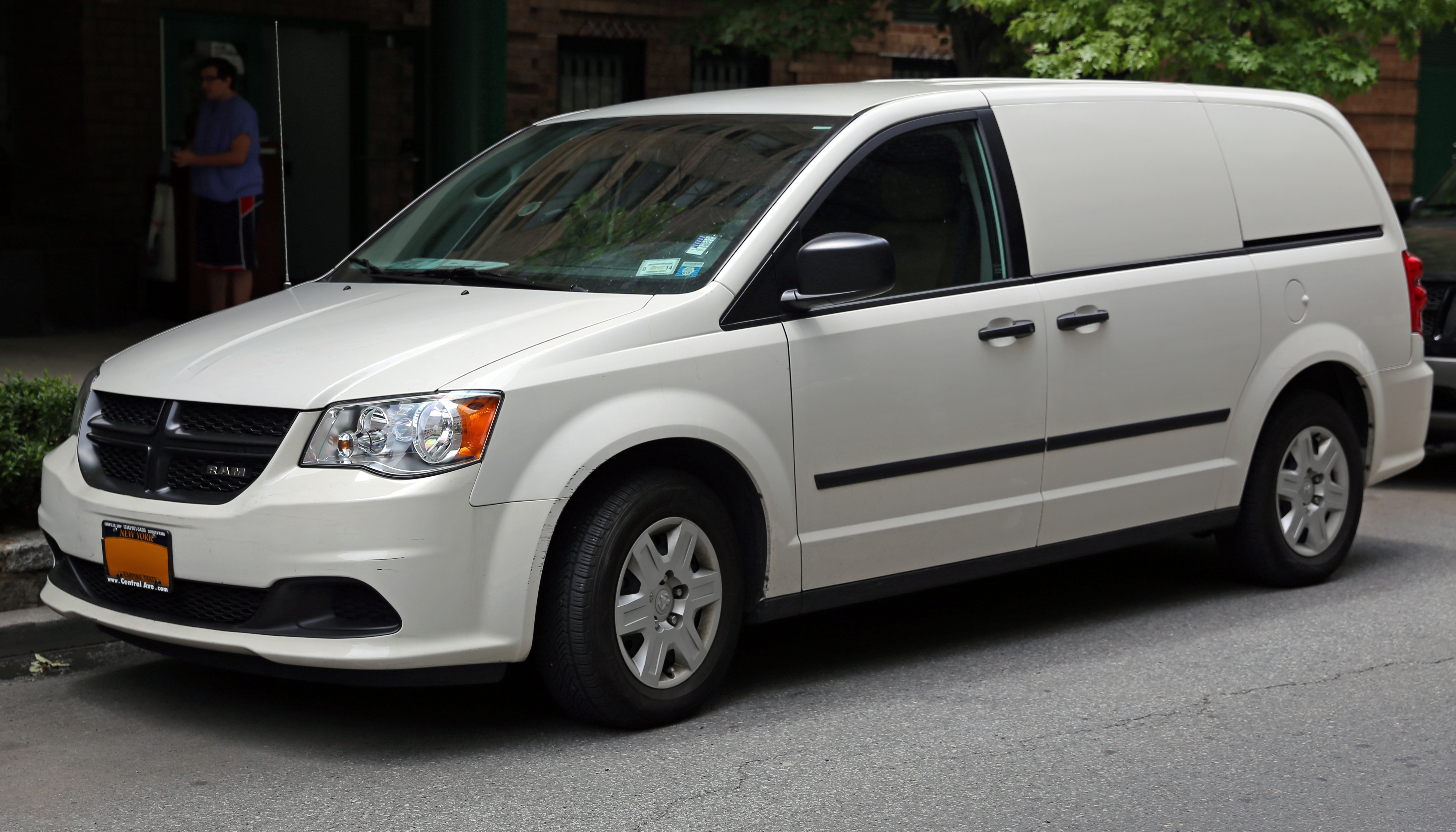 2012 Dodge Ram C/V (Cargo Van), rear view. 3.6 litre V6, built in Canada.